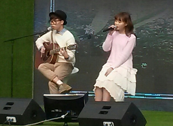 Akdong Musician at Seoul Forest (April 5 2014)